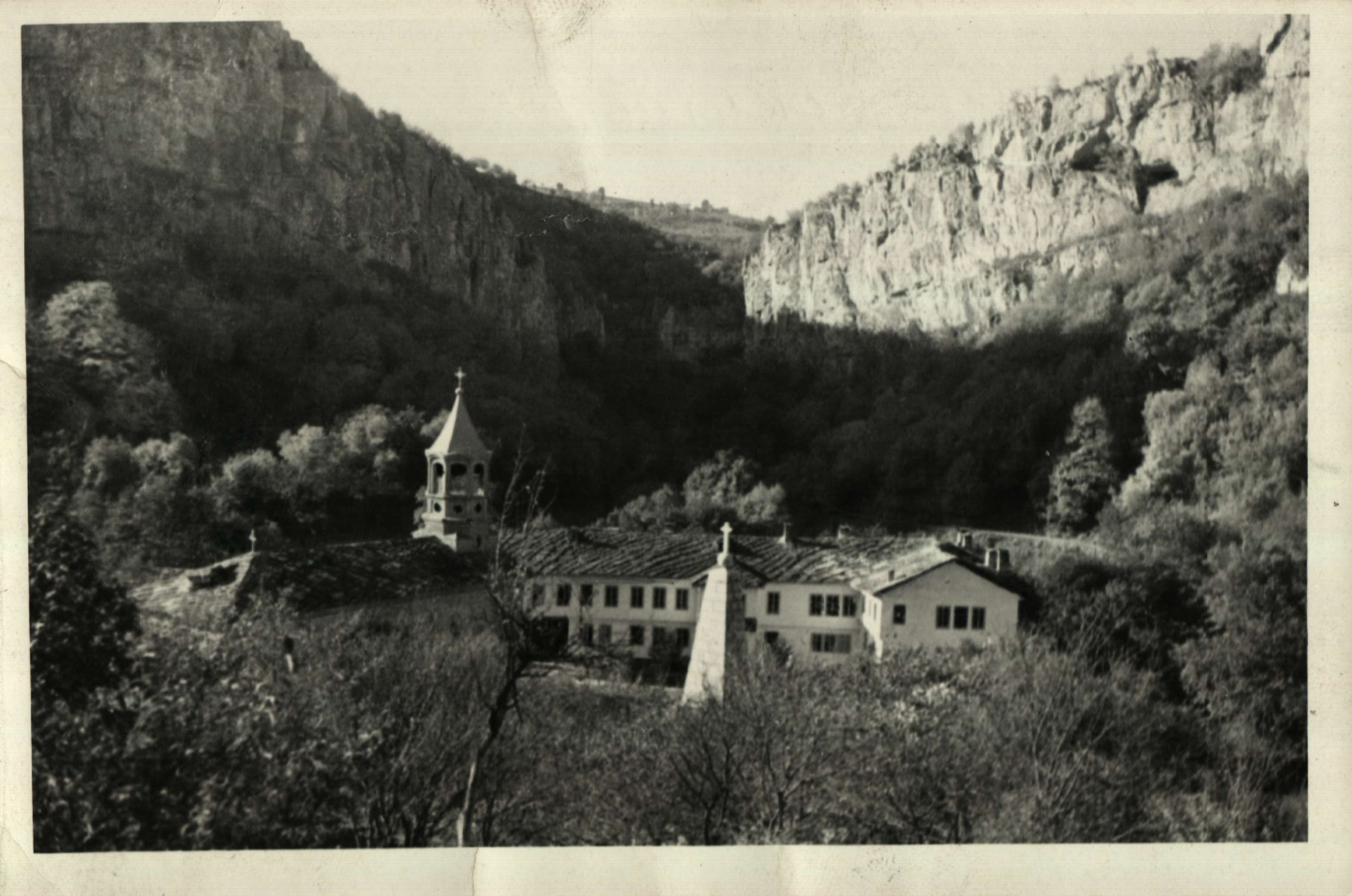 Dryanovo Monastery